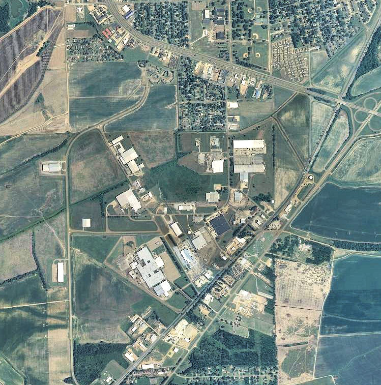 USGS digital orthophoto of Greenwood Municipal Airport (Old) in Mississippi